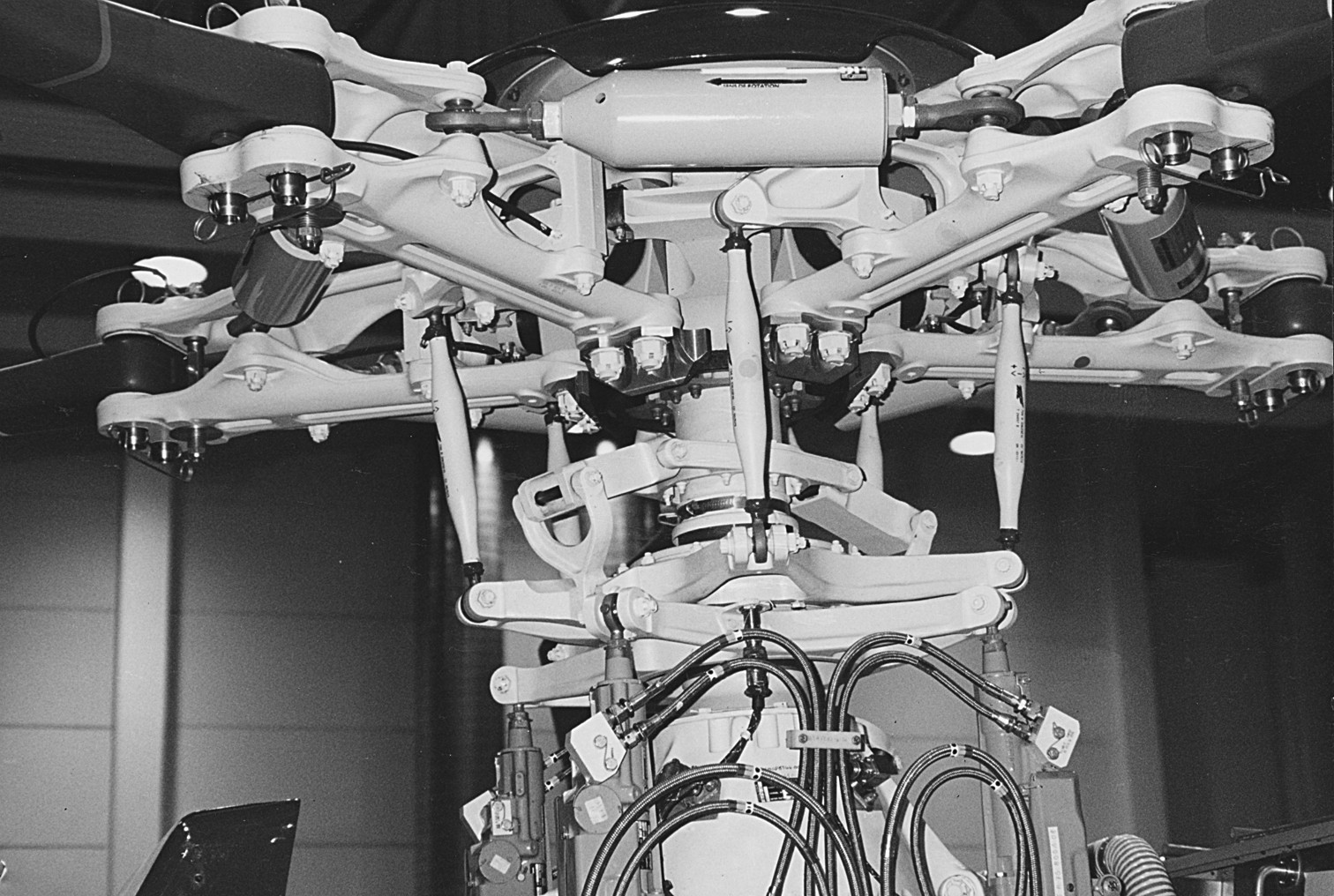 Main rotor head of Eurocopter EC155